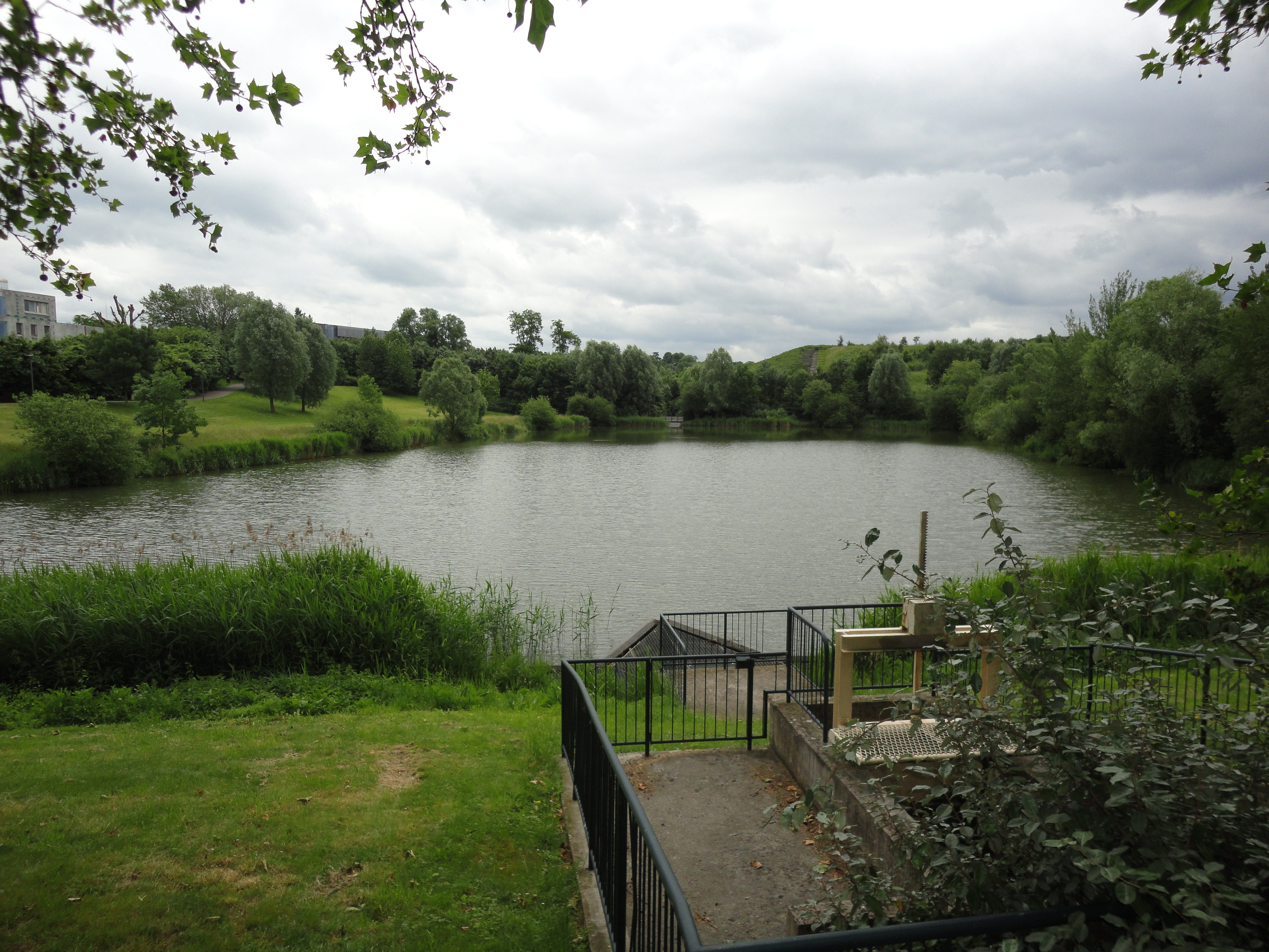 Unamed Torcy's lake, behind Jean Moulin High School